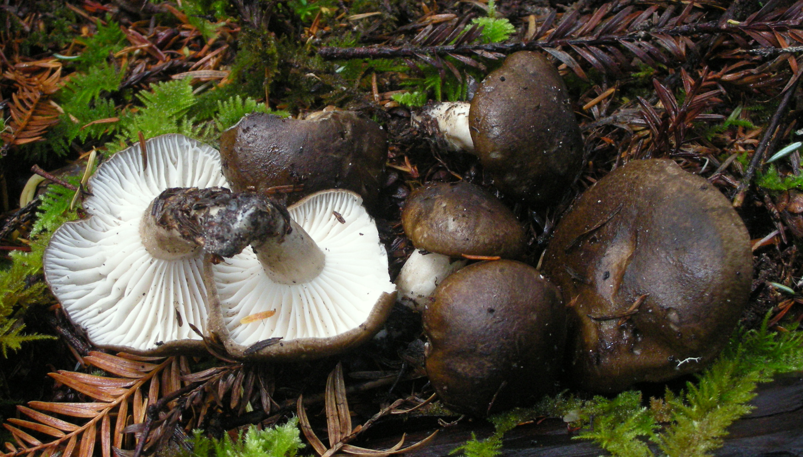 Hygrophorus camarophyllus (Alb. & Schwein.) Dumée, Grandjean & Maire